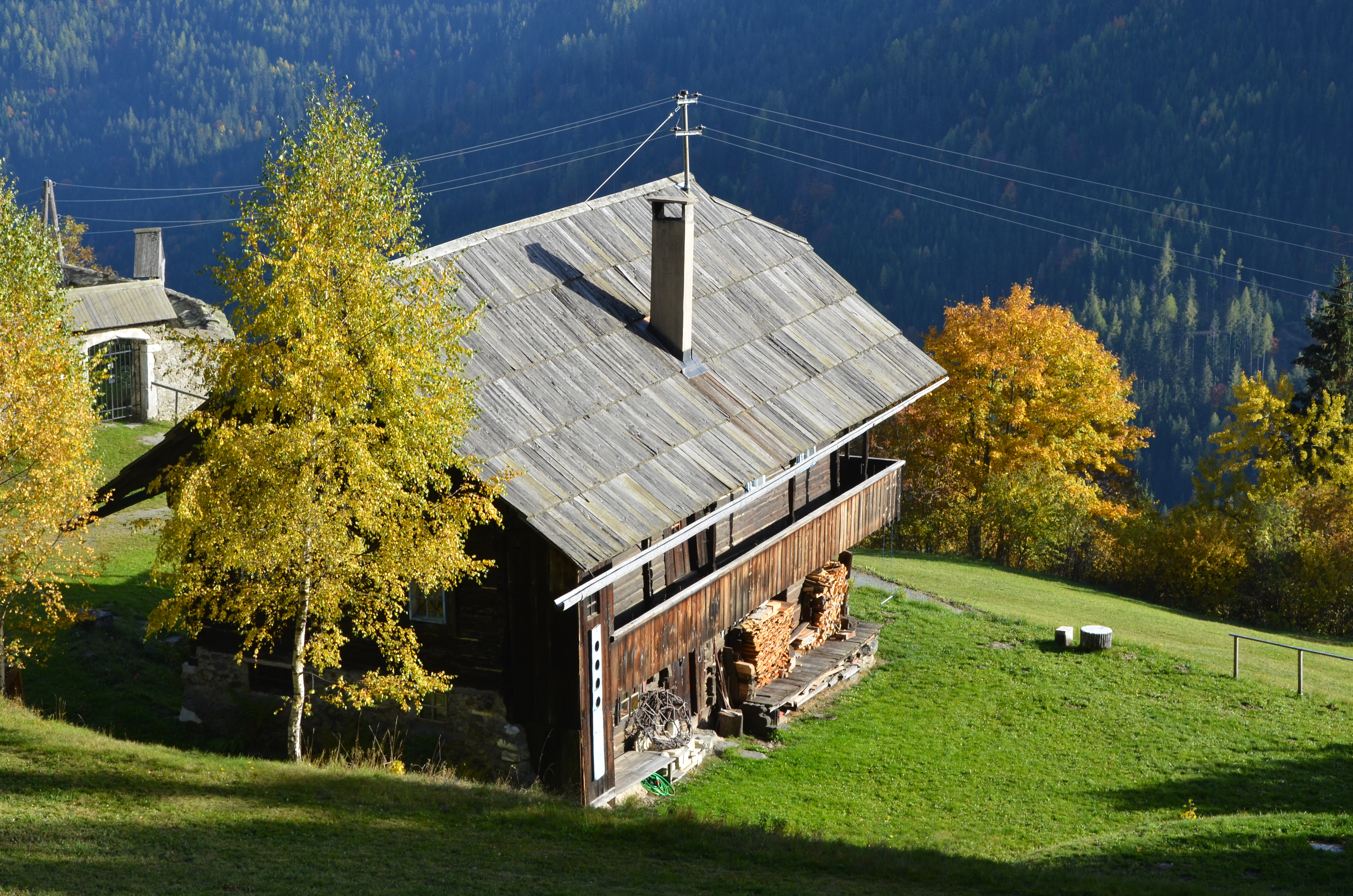 Former elementary school, nowadays sacristan house at Ausserteuchen, municipality Himmelberg, district Feldkirchen, Carinthia / Austria / EU